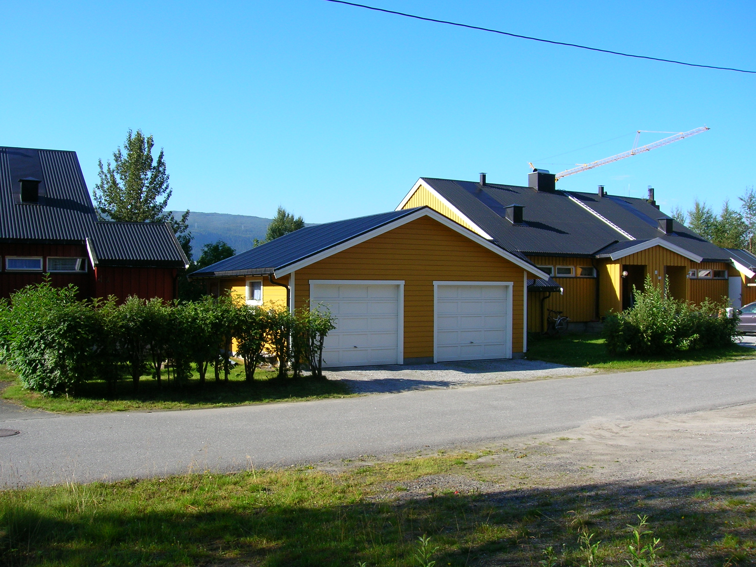 Lilleeng housing cooperative on Selfors, 4 km north of Mo i Rana, Rana municipality, county of Nordland, Norway, Photo 8 August, 2007 with a Nikon Coolpix 5600 5,1 Megapixel camera.